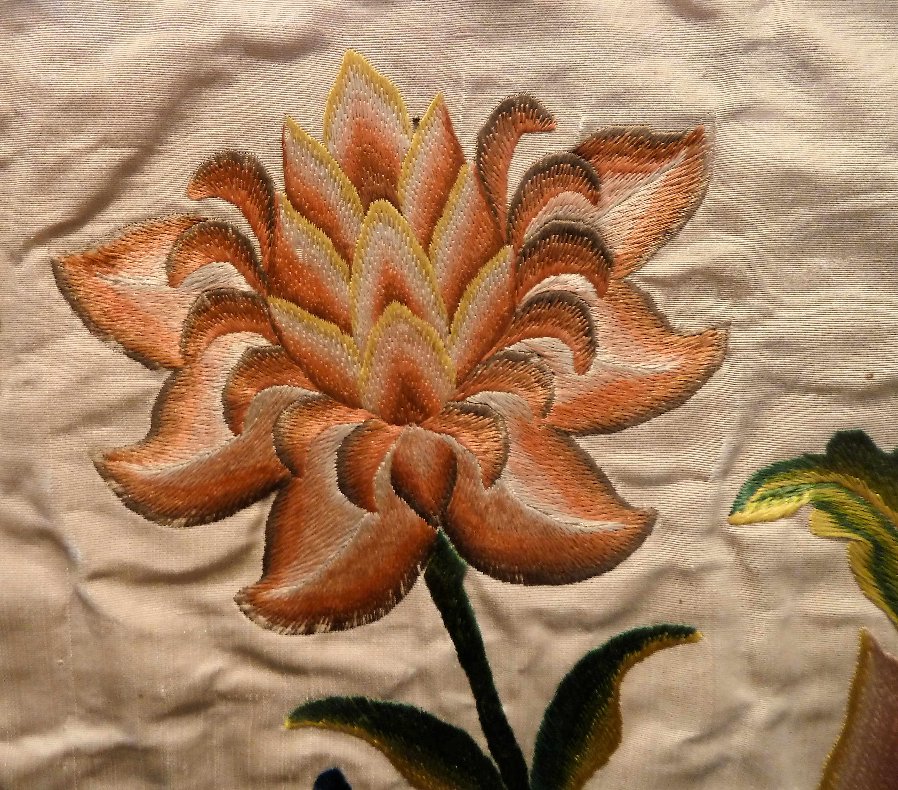 Detail of altar frontal (antependium}, France or Italy, 1730-1740. Silk satin with silk and metallic-thread embroidery, guipure and gaufrure.